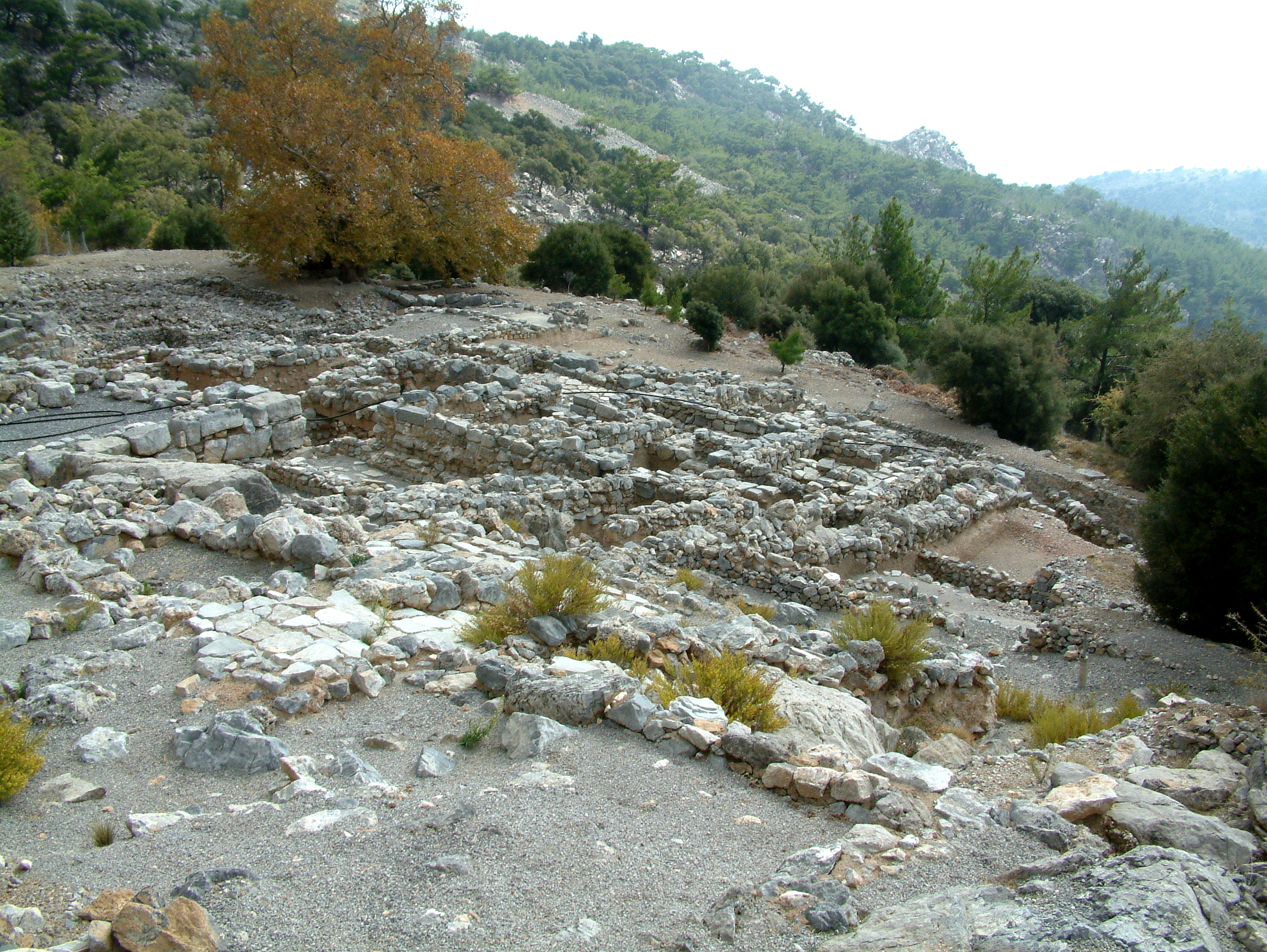 This is a photography of Natura 2000 protected area with ID GR4310006